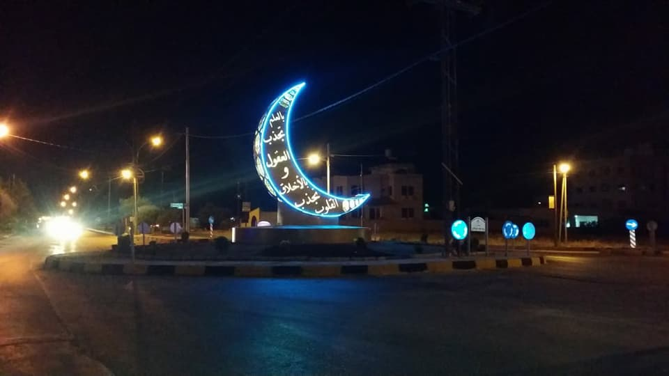 The statue of the crescent in one of the squares was decorated in color and beautifully lit to celebrate the month of Ramadan in Jordan.